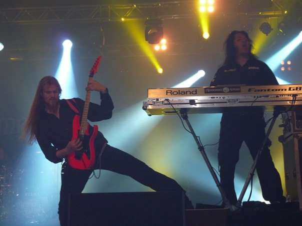 Tuomas Seppälä with Emil Pohjalainen on tour with Amberian Dawn in 2009.